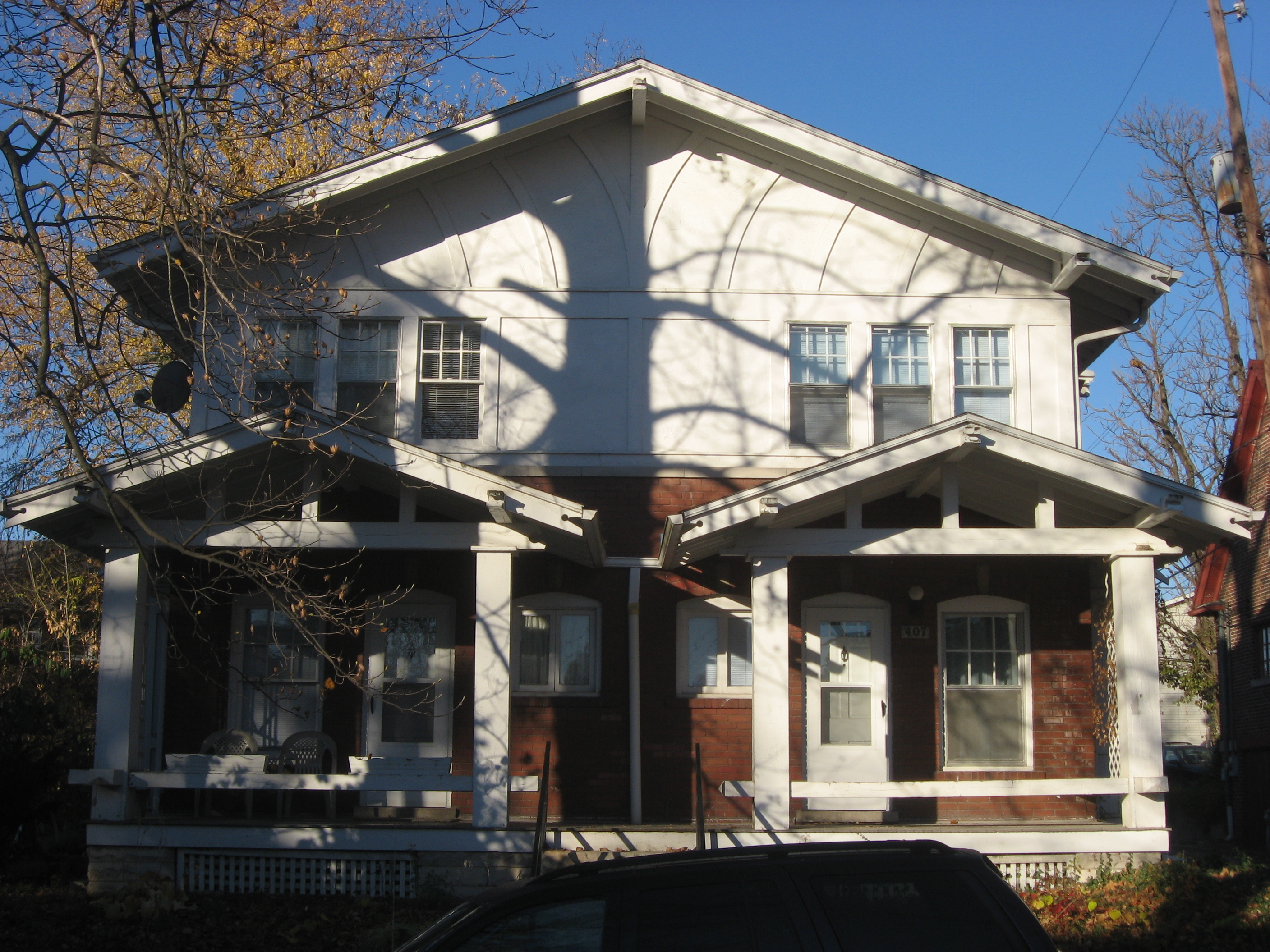 Front of one of the Feltus Duplexes, located at 405-407 N. Park Avenue in Bloomington, Indiana, United States. Built in 1930, it is a part of the University Courts Historic District, a historic district that is listed on the National Register of Historic Places.